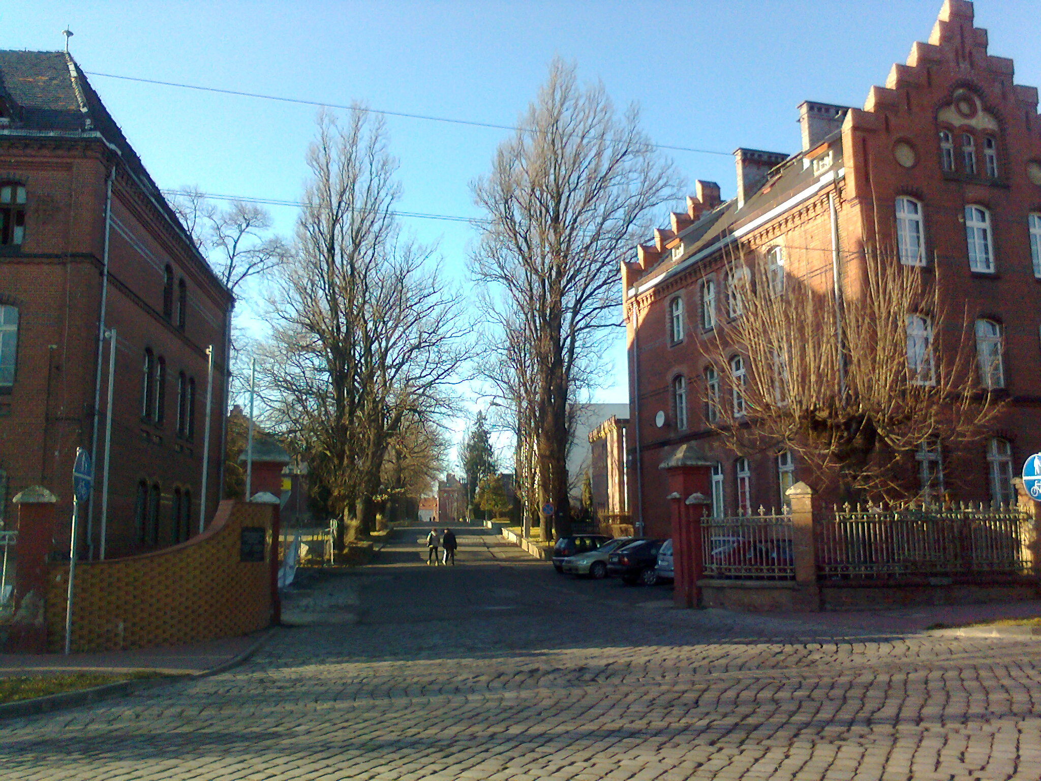 Legionów Street in Prudnik